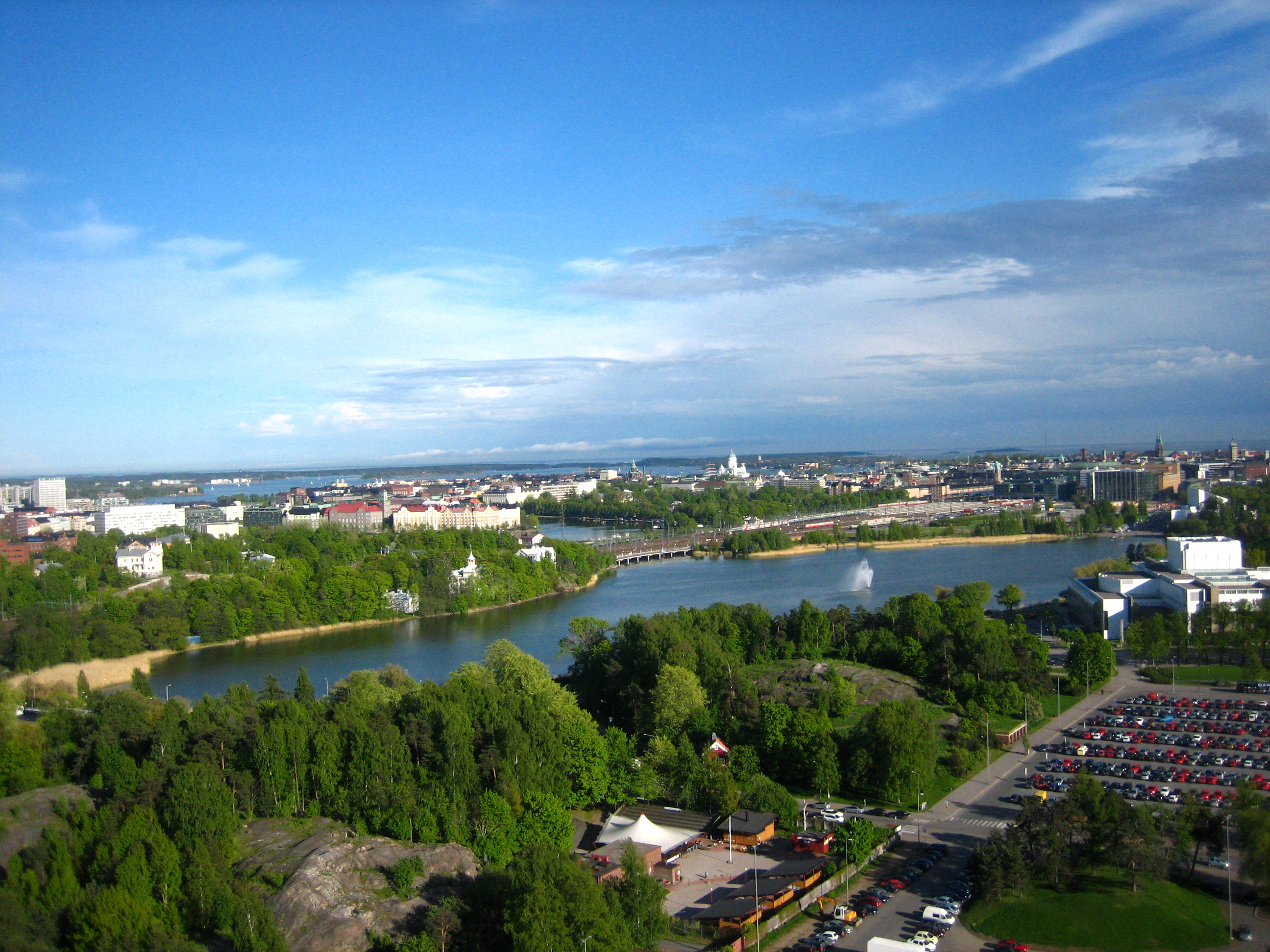 View to Töölönlahti, Helsinki from the tower of Helsinki Olympic Stadium